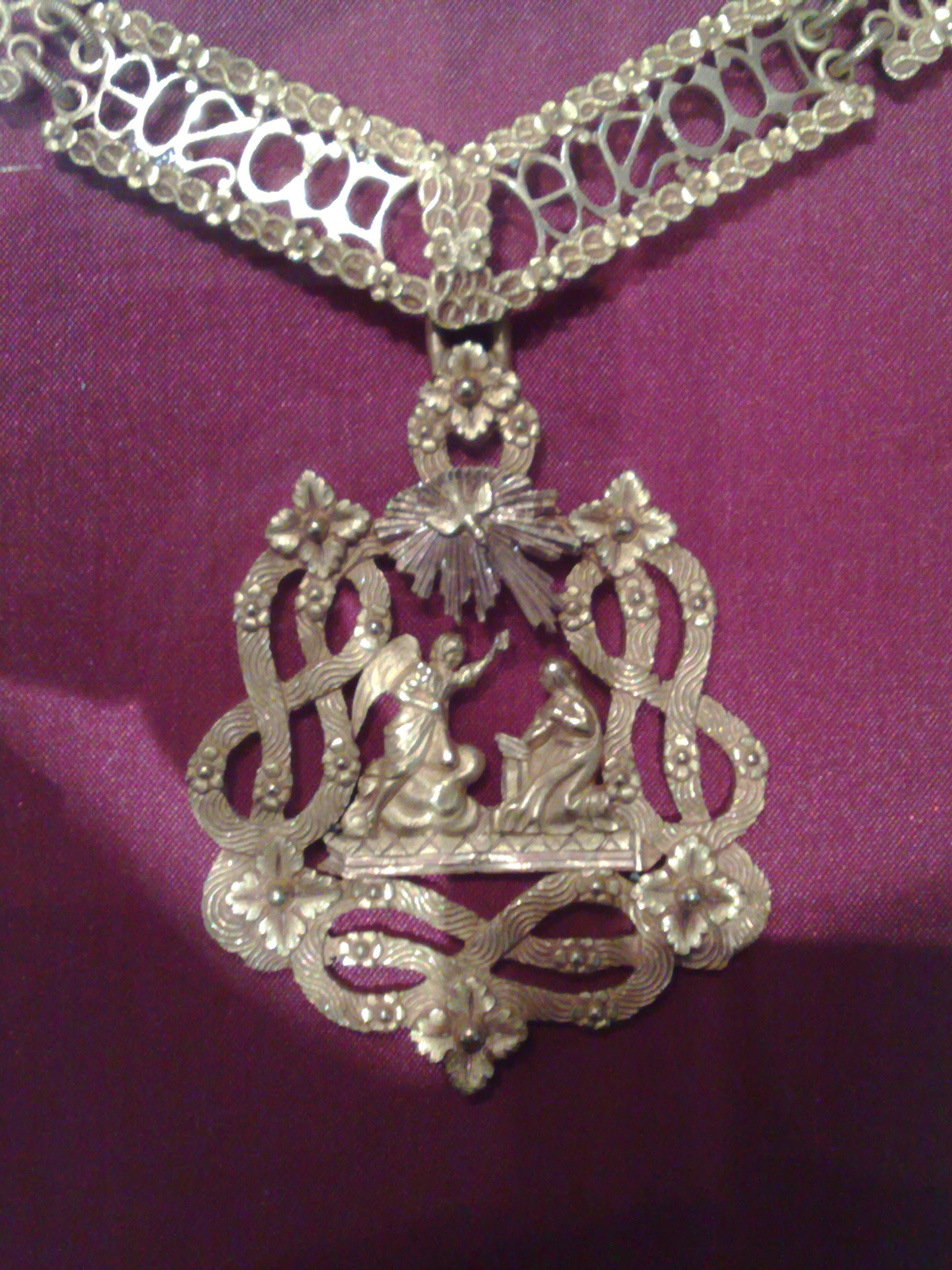 Supreme Order of the Most Holy Annunciation